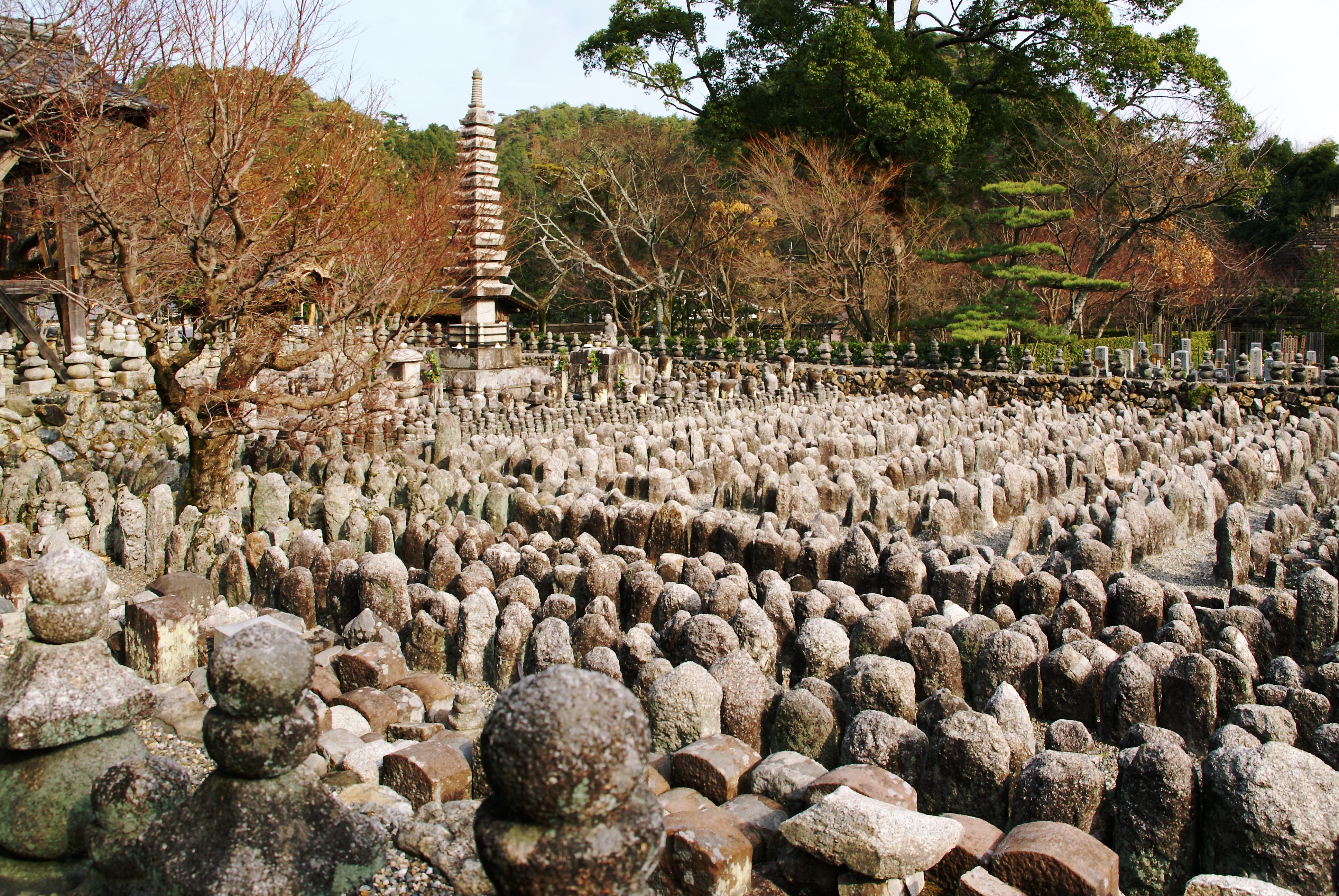 Adashino Nenbutsu-ji in Kyoto, Kyoto prefecture, Japan